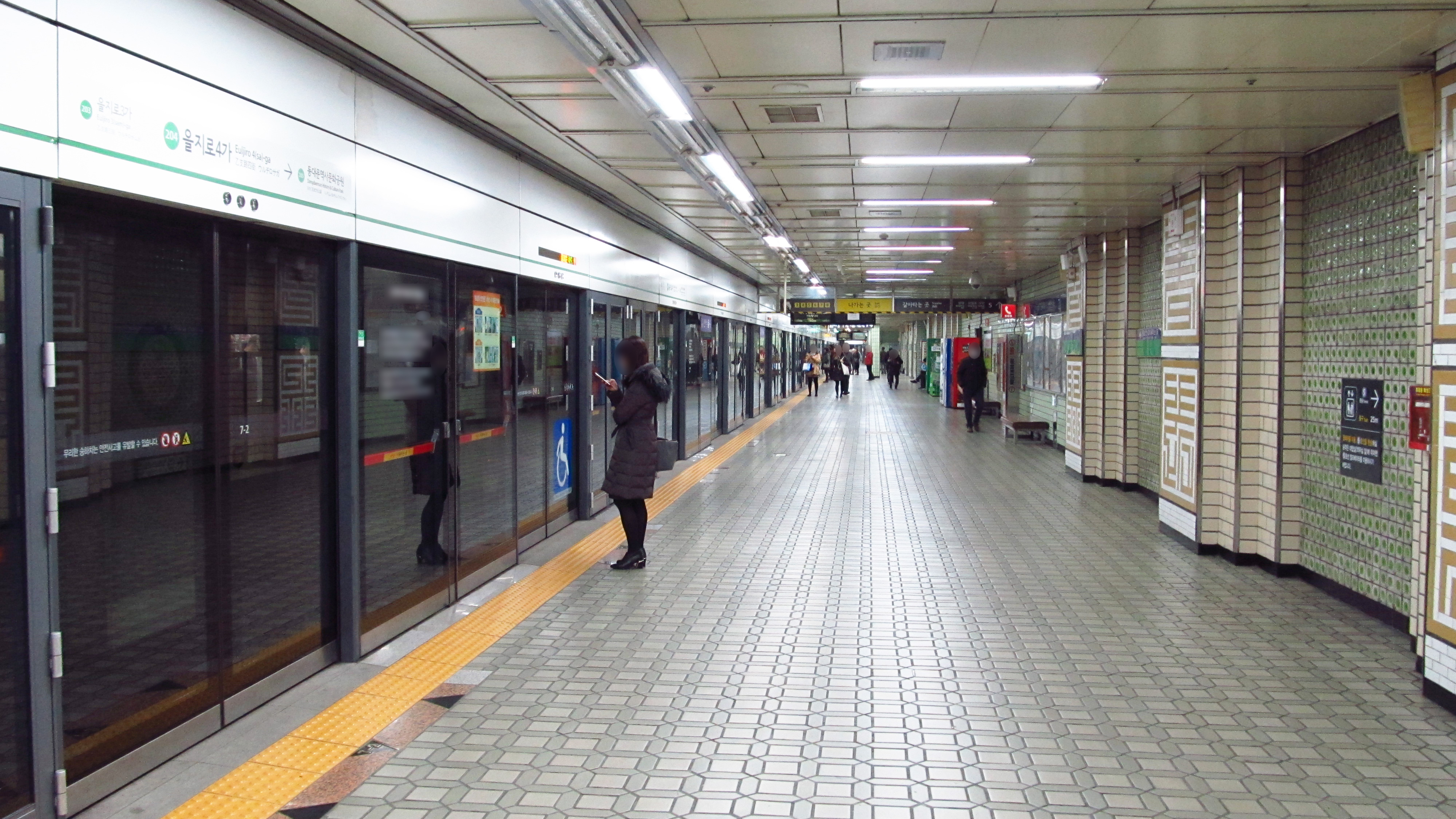 The platform at Euljiro 4-ga Station on Seoul Subway Line 2 in Jung-gu, Seoul, Republic of Korea(South Korea)